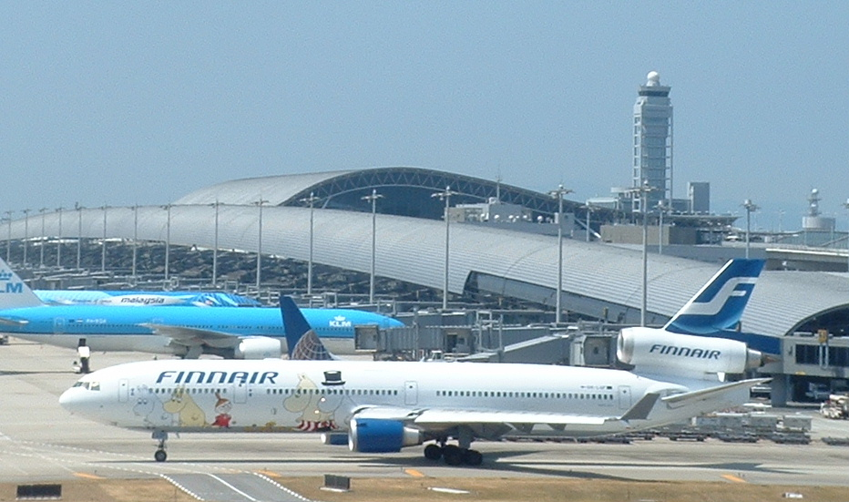 Finnair MD-11 with Moomin colours at Kansai International Airport